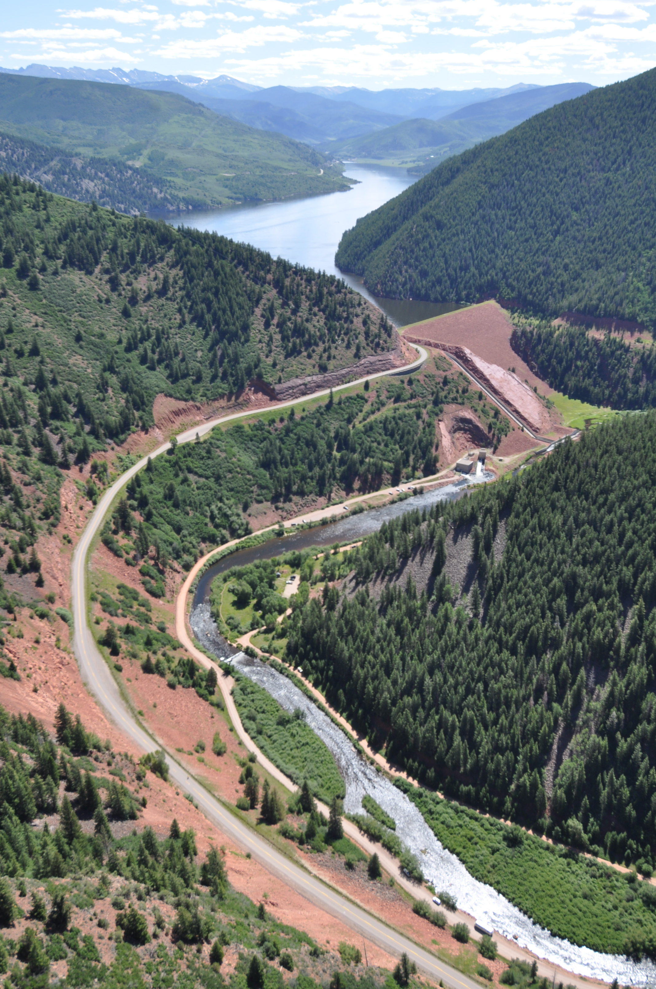 Looking eastward, upstream, on the Fryingpan River to Ruedi Dam and Reservoir just east of Basalt, Colo.